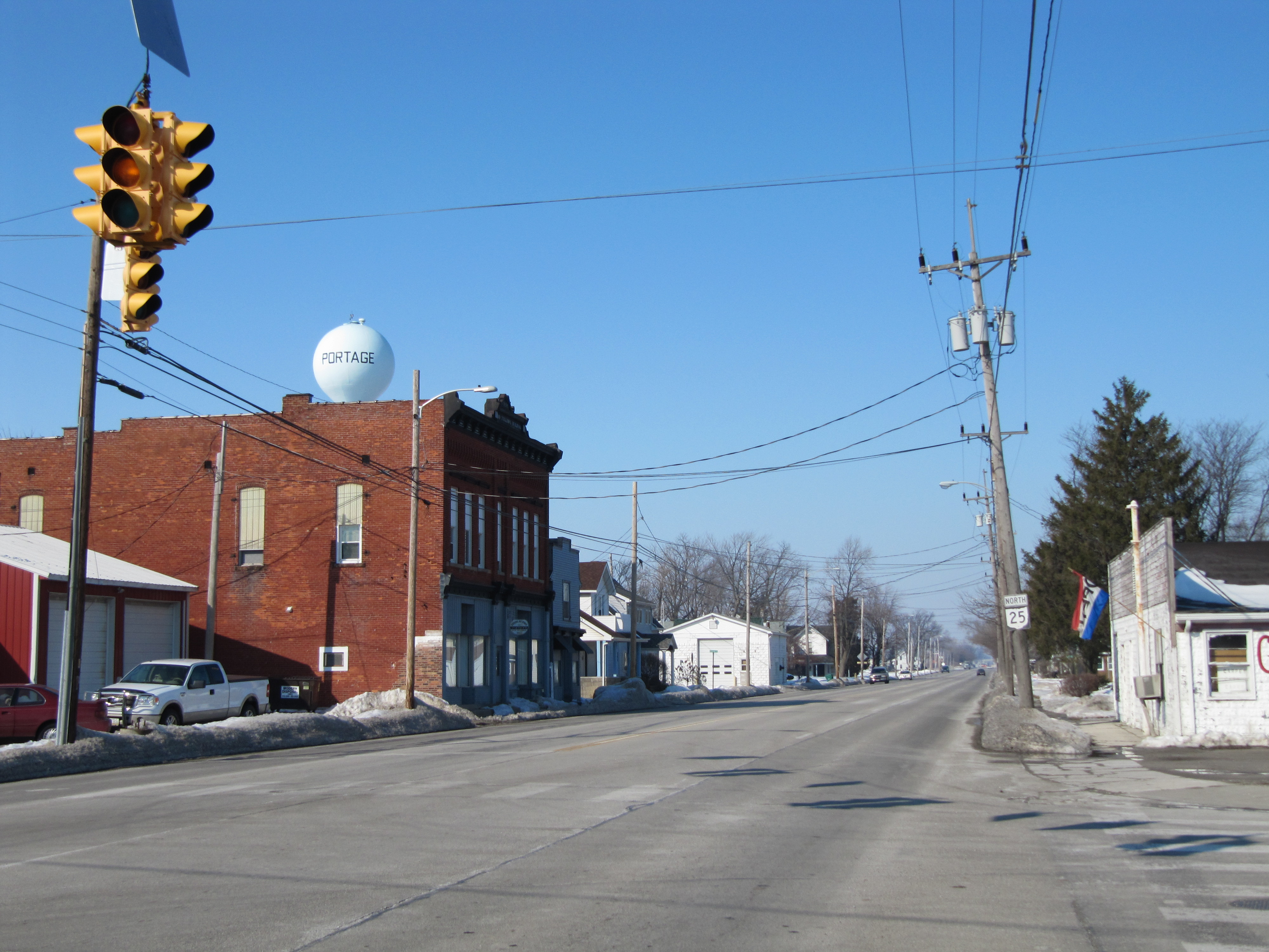 Photograph of the village of Portage, Ohioen, taken at street level from the intersection of Main Street and South Dixie Highway, looking North up Ohio State Route 25.